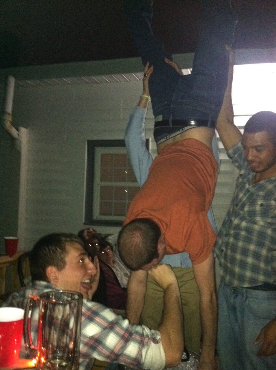 Standard keg stand form.